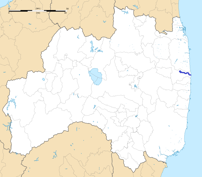 river in prefecture Fukushima